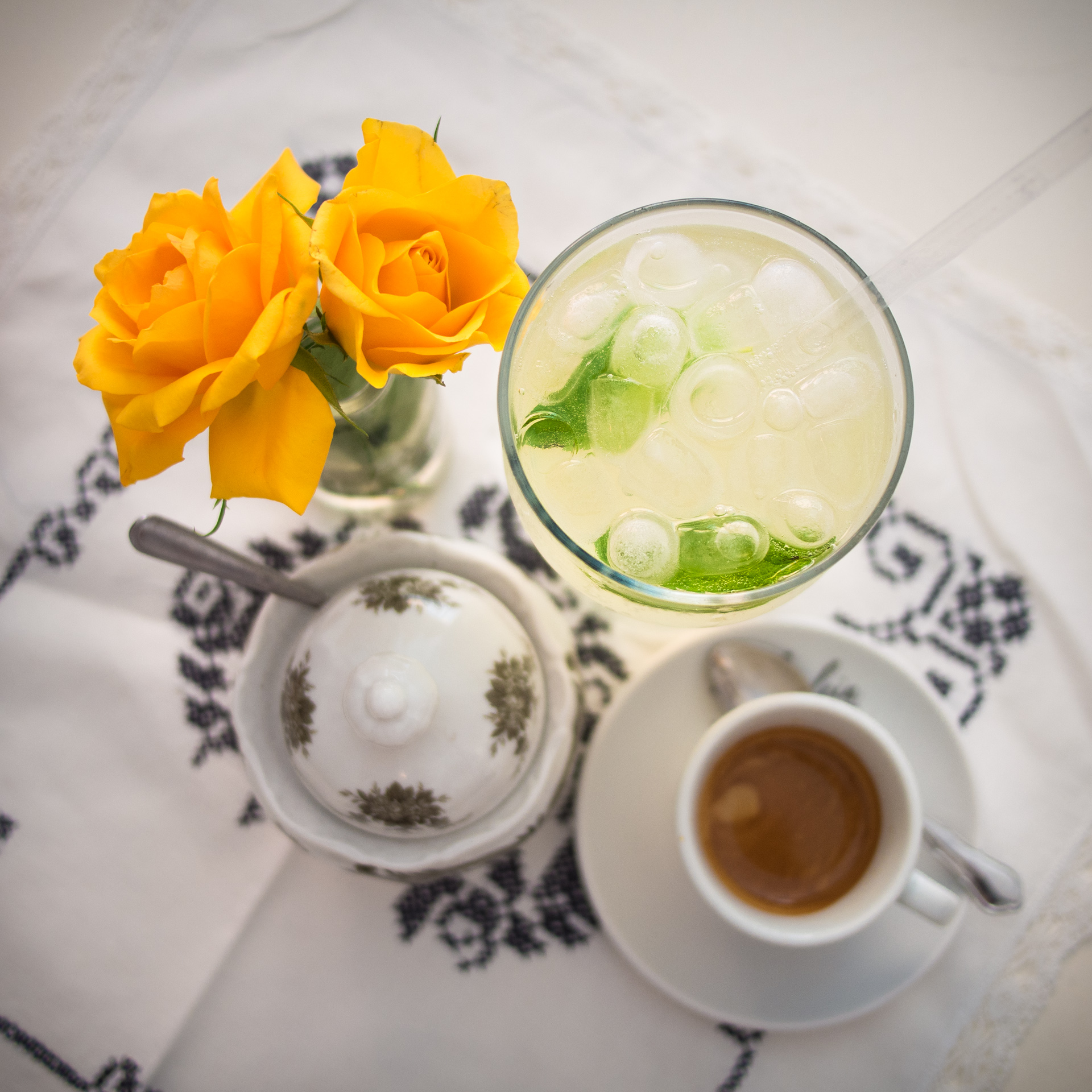 Holunderlimonade' is a popular lemonade in Germany. It is made by mixing a cordial, made from elderberry flowers, with sparkling mineral water. Very often fresh mint leaves are added for taste. The coffee in the image is an espresso.